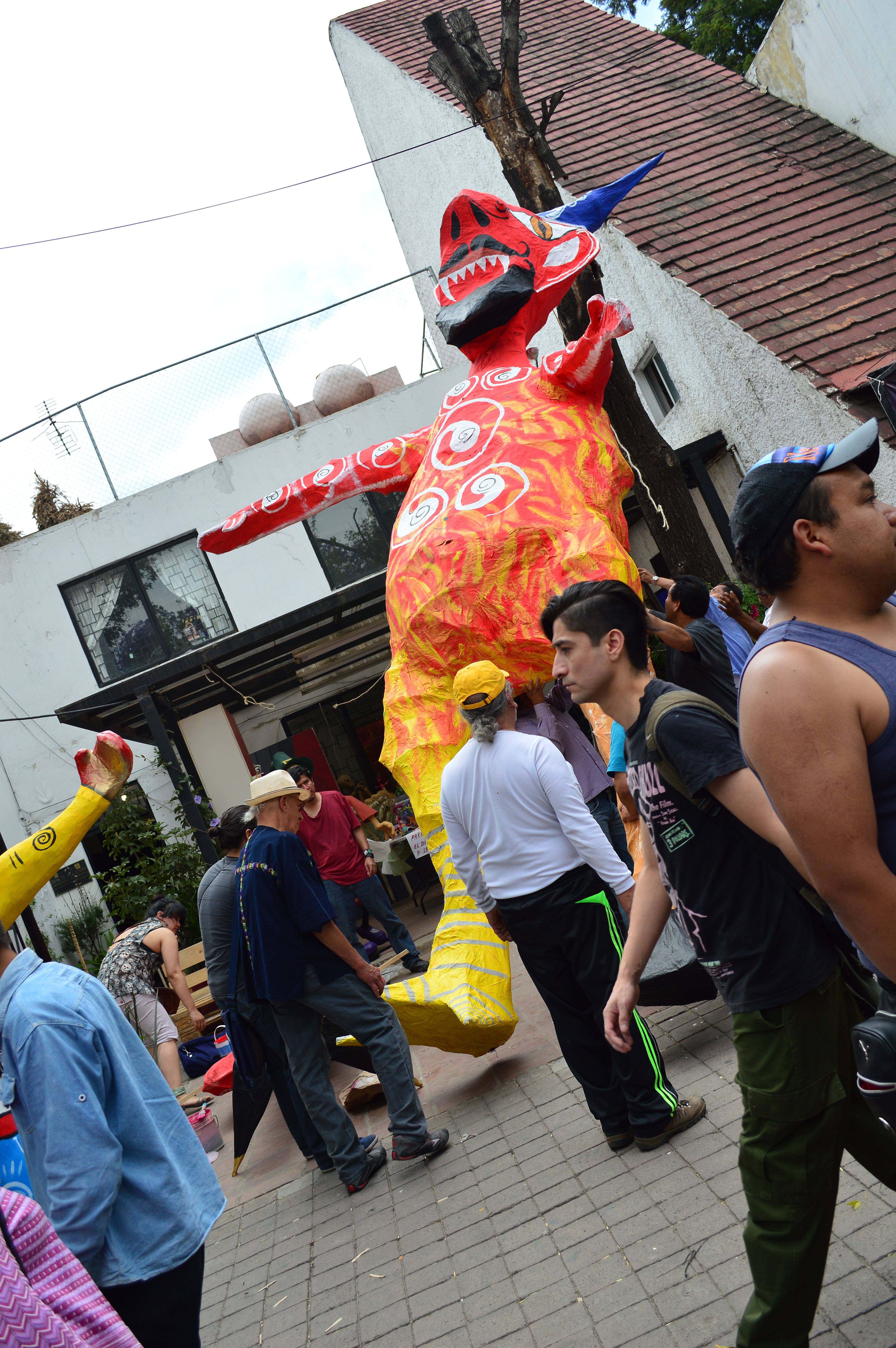 giant Judas at the 4th Feria de Cartoneria in Santa Maria la Ribera, Mexico City